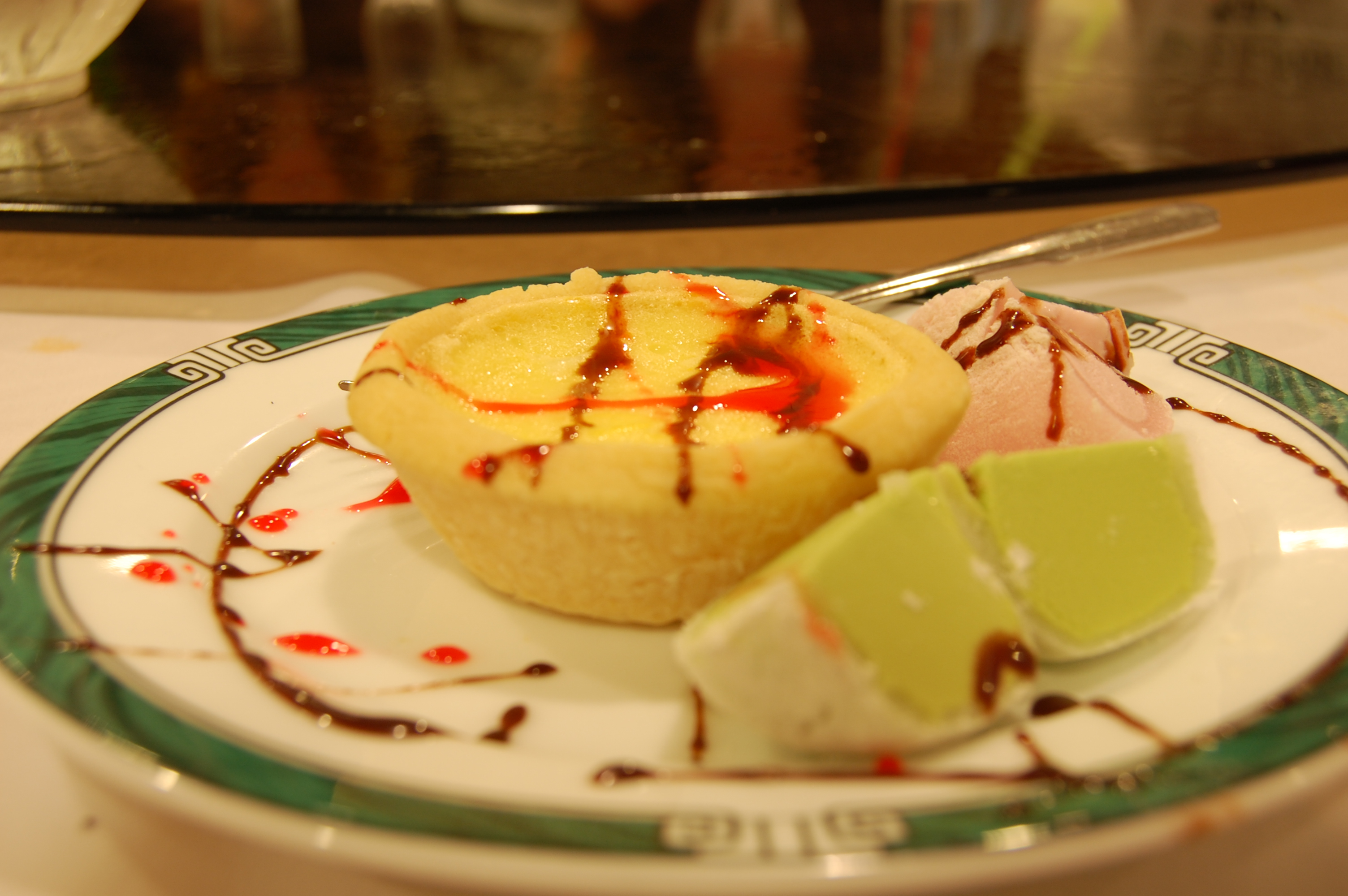 "dan tat"